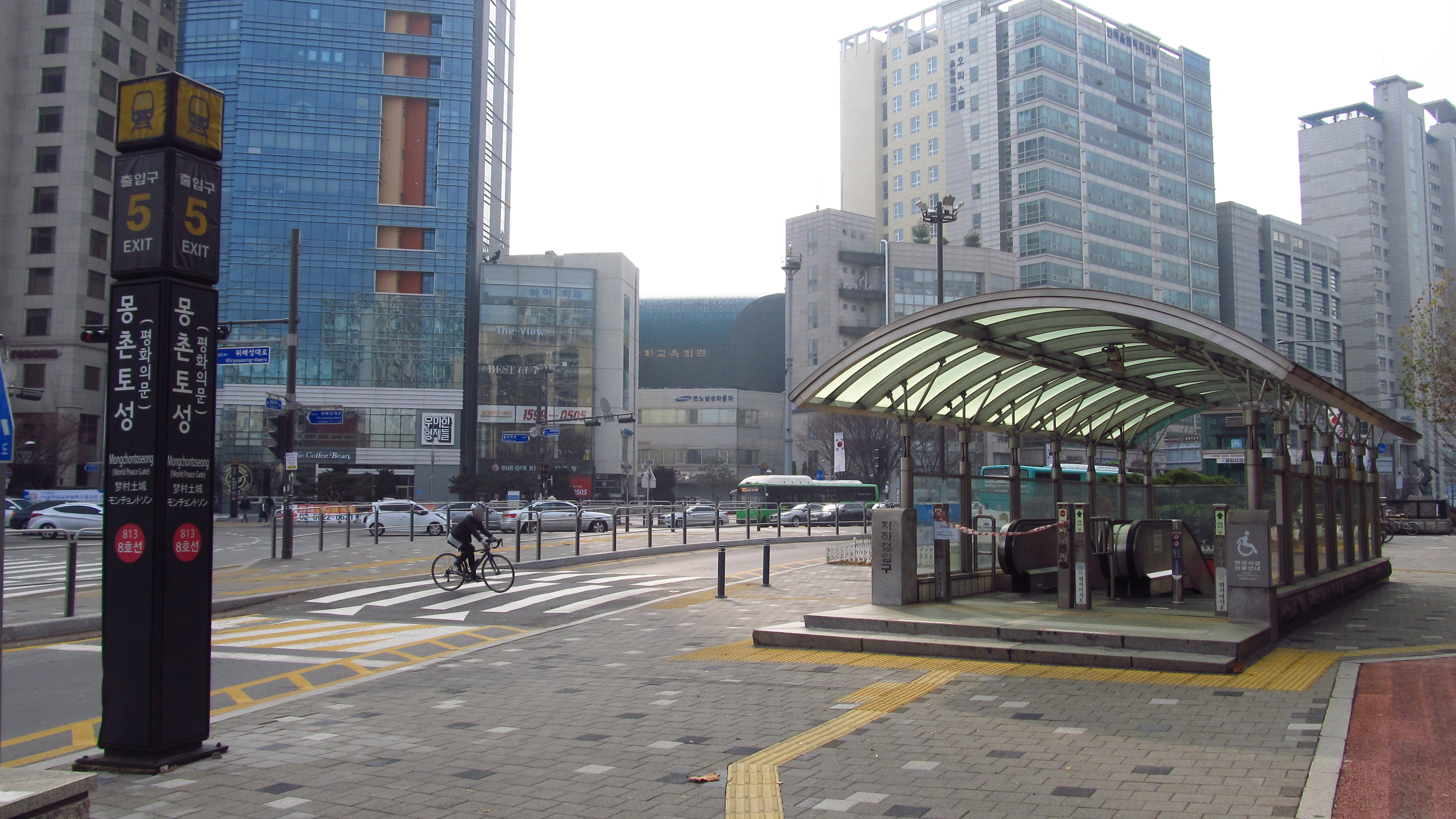 The no.5 entrance to Mongchontoseong Station on Seoul Subway Line 8 in Songpa-gu, Seoul, Republic of Korea(South Korea)